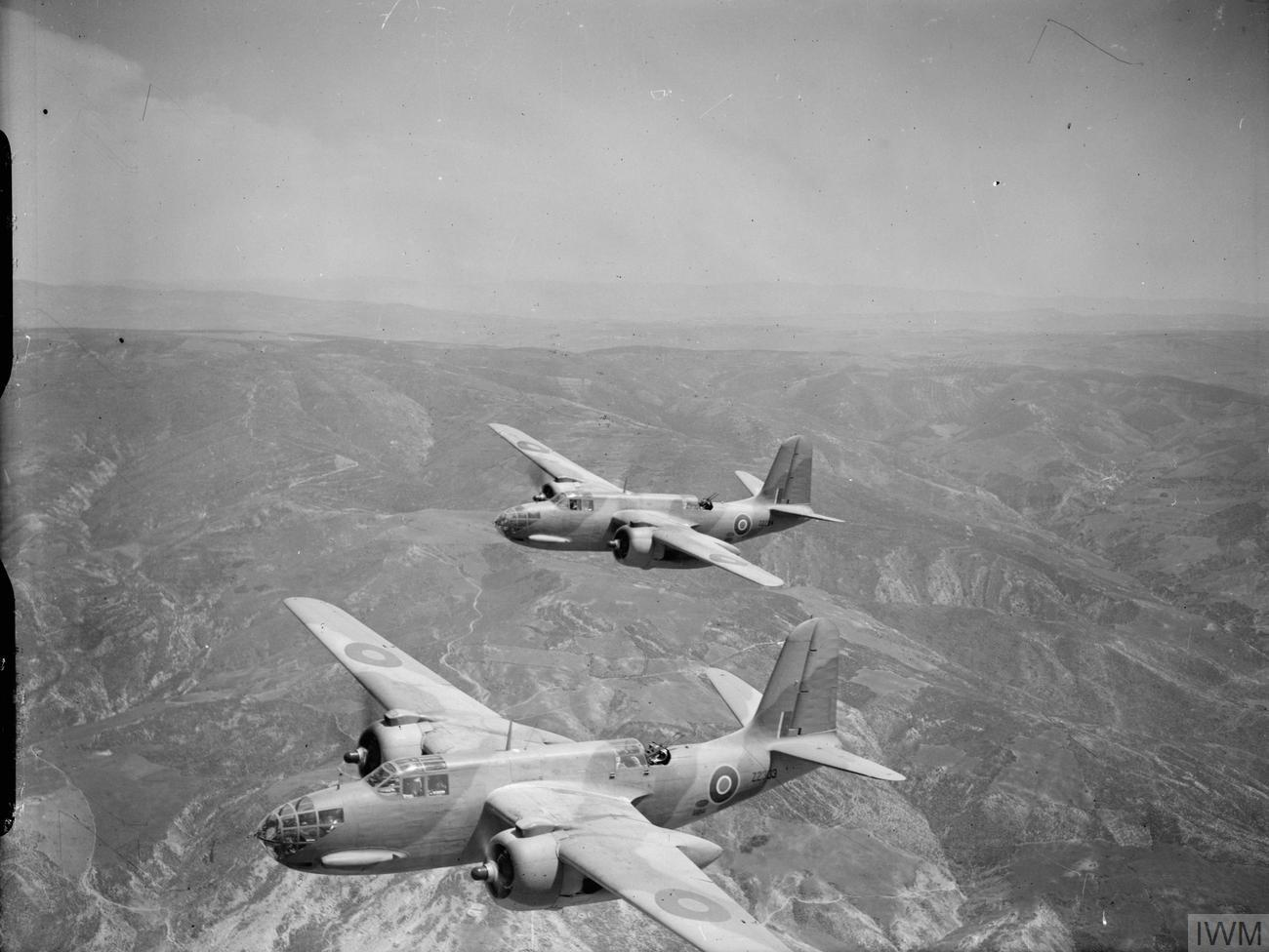 Royal Air Force Operations in the Middle East and North Africa, 1939-1943. Two Douglas Boston Mark IIIs, Z2303 and Z2284, of No. 114 Squadron RAF based at Souk el Khemis (‘Kings Cross’) Tunisia, flying over the Aurés mountains to attack enemy airfields.